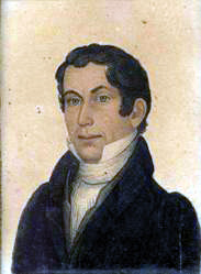 color corrected version of File:TimothyFuller.JPG, a painting of U.S. Congressman Timothy Fuller (1778-1835)